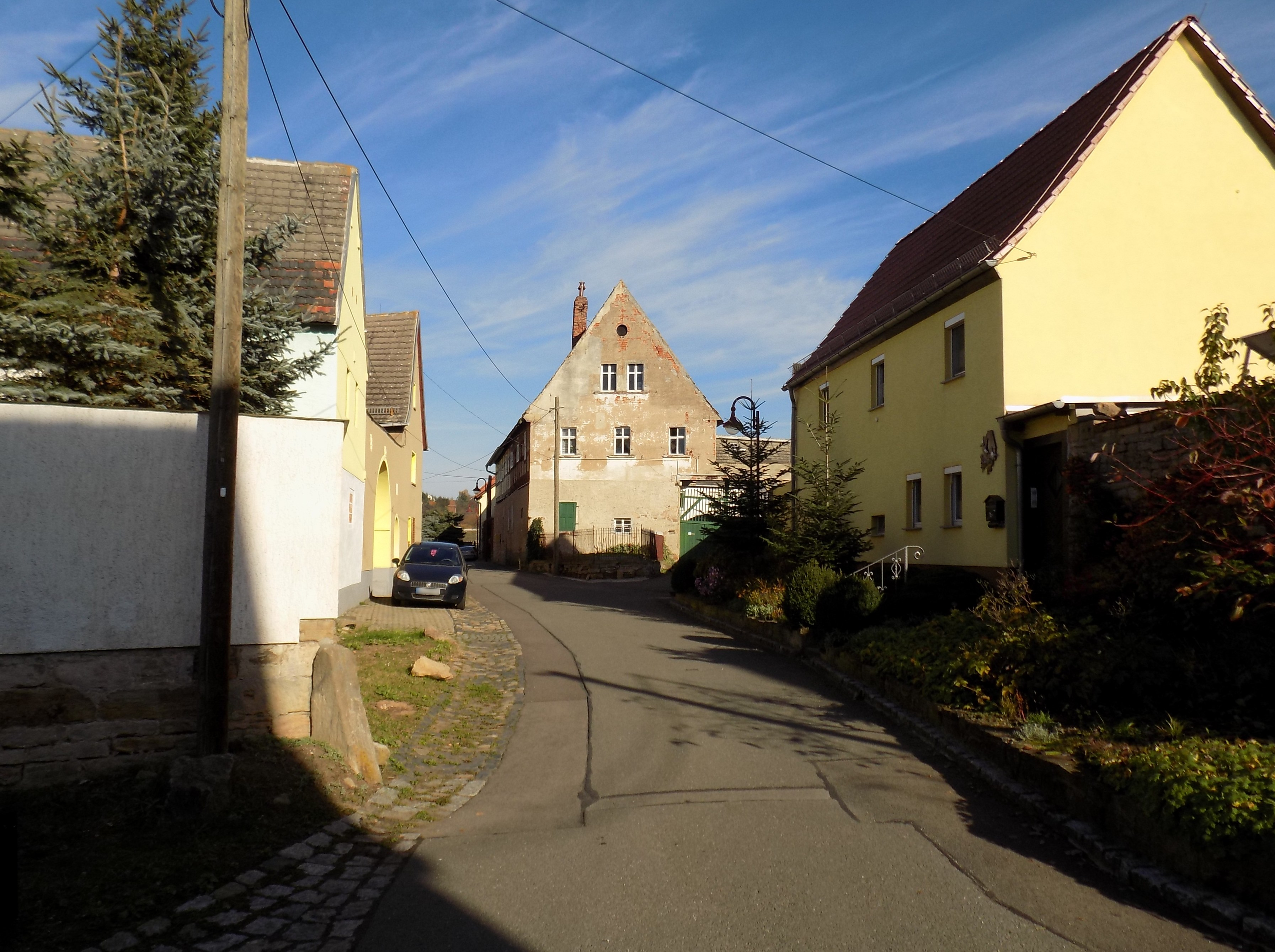 Schmale Strasse in Grossosida (Gutenborn, district: Burgenlandkreis, Saxony-Anhalt)